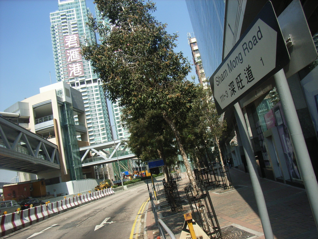 深旺道（Sham Mong Road）是香港的一條道路，位於西九龍填海區。君匯港（Harbour Green）樓花於2007年落成。(Photo by User:OLAMB)